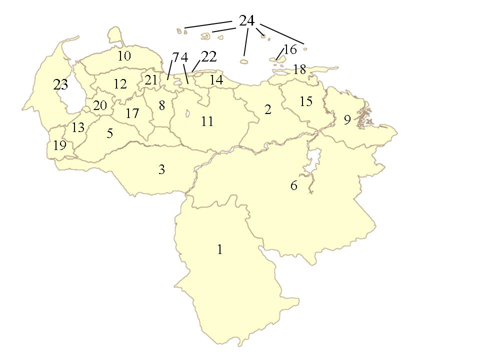 The numbered States of Venezuela. Modified from Image:Mapa-politico-venezuela.png, since the uploader gave permission to do so.